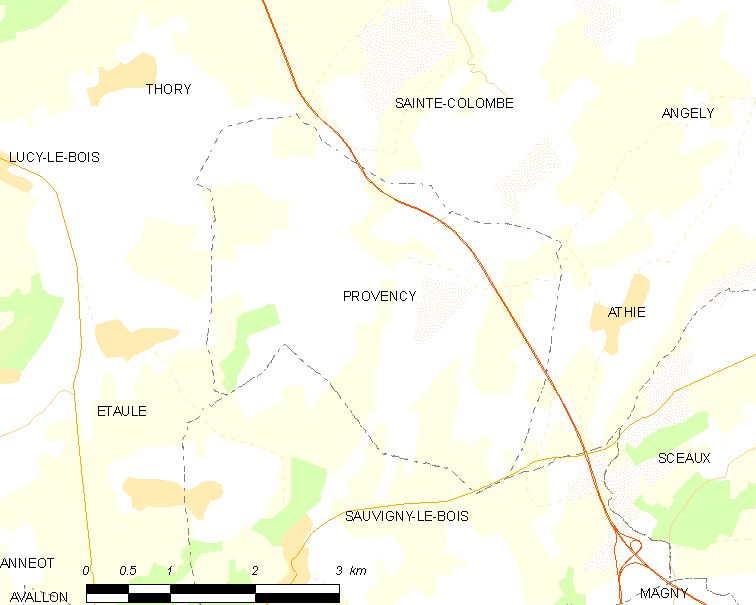 Map of French municipality Provency